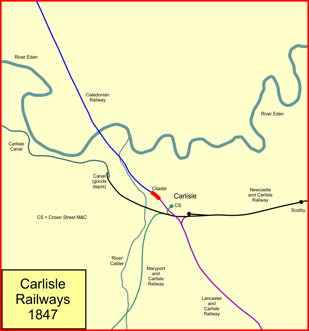 Railways of Carlisle, England, in 1847